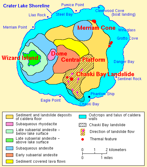 USGS photo from [1]